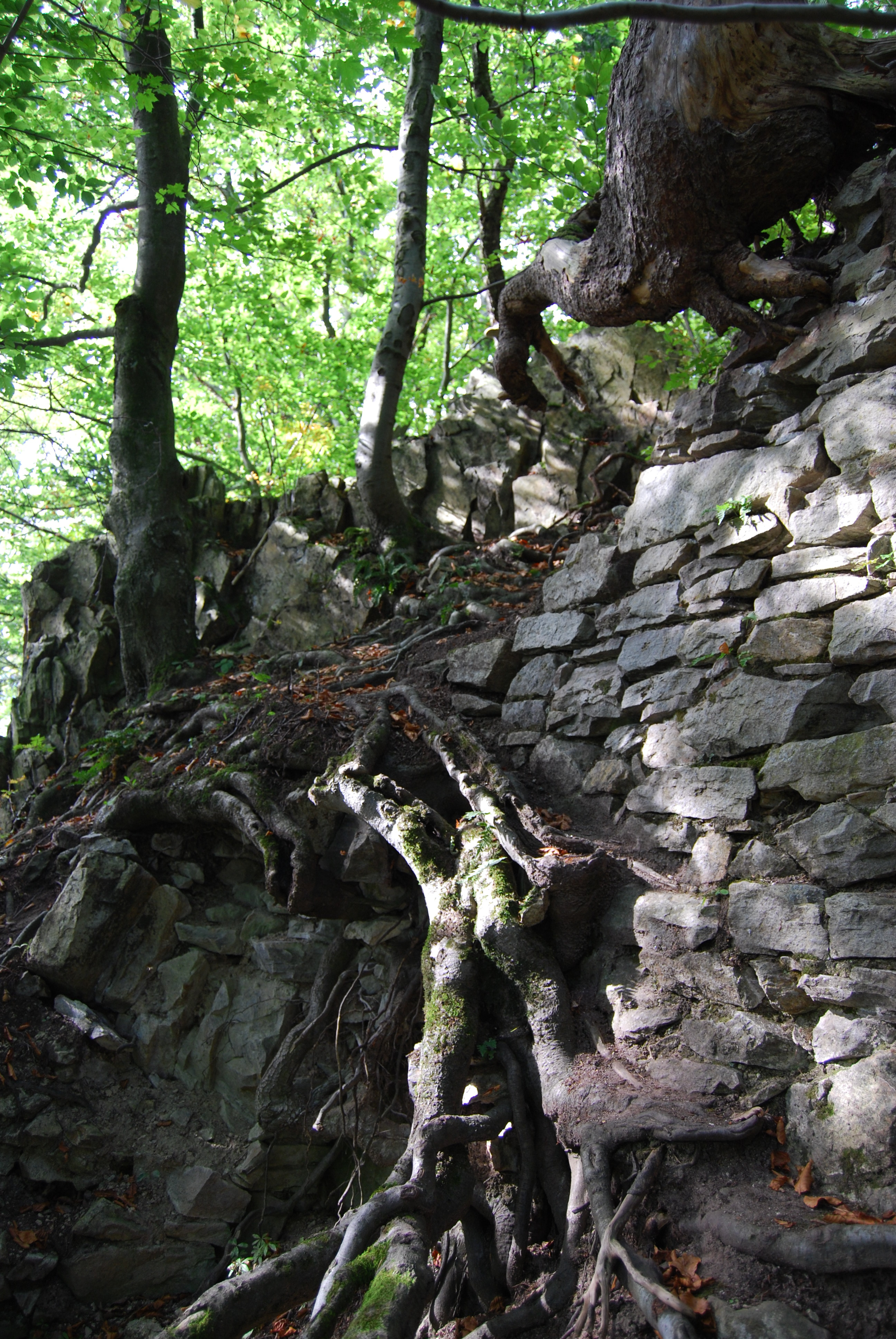 Ruins of Kuglvajt castle in Kuklev village town in Prachatice District, Czech Republic.